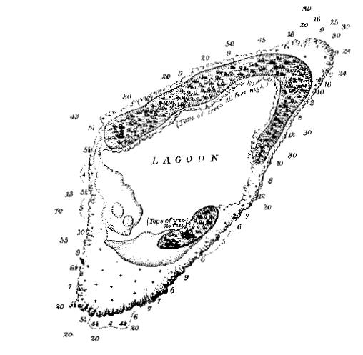 Map of Ducie Island based on survey by Frederick William Beechey, part of Admiralty Chart 1176.